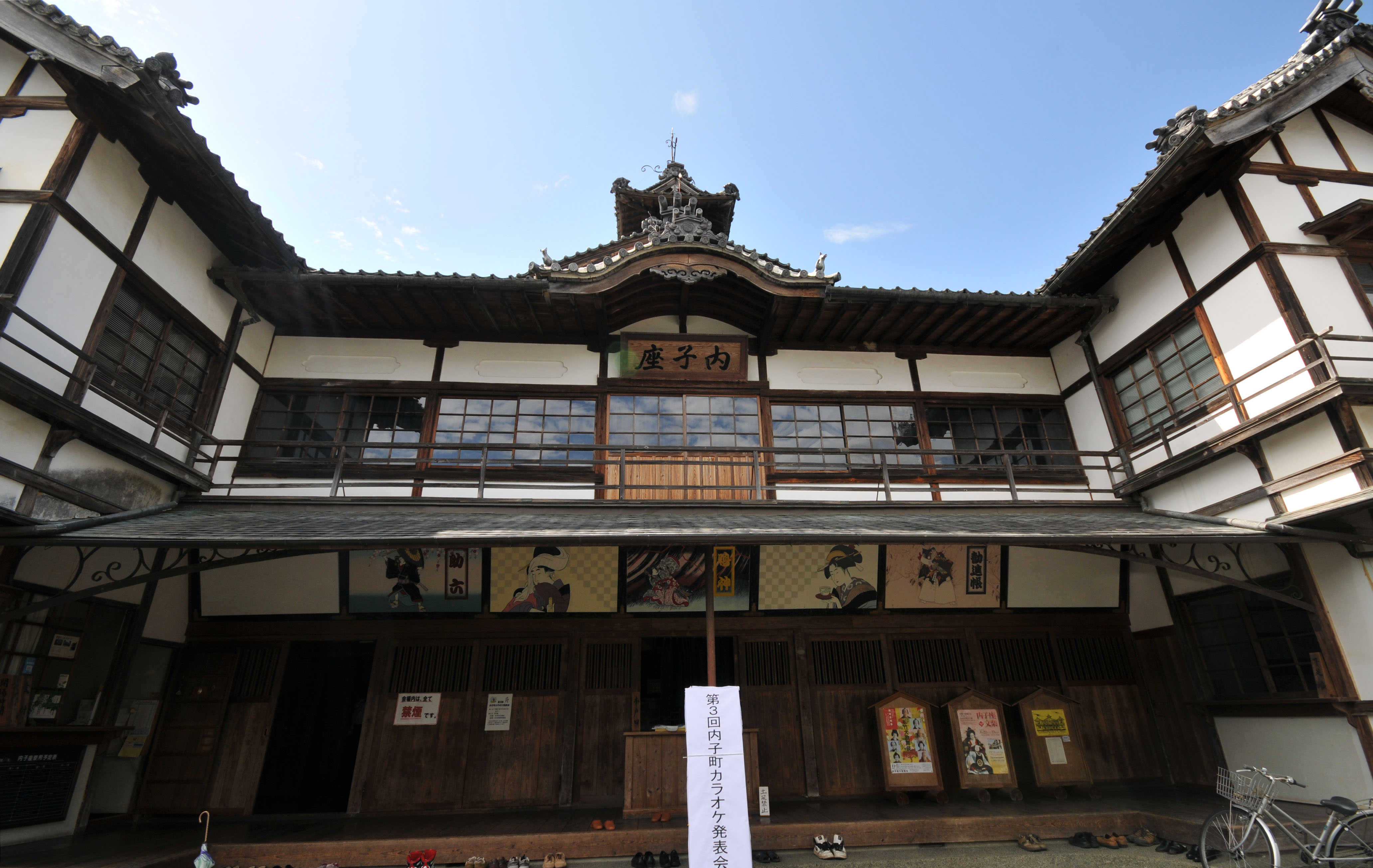 Uchikoza